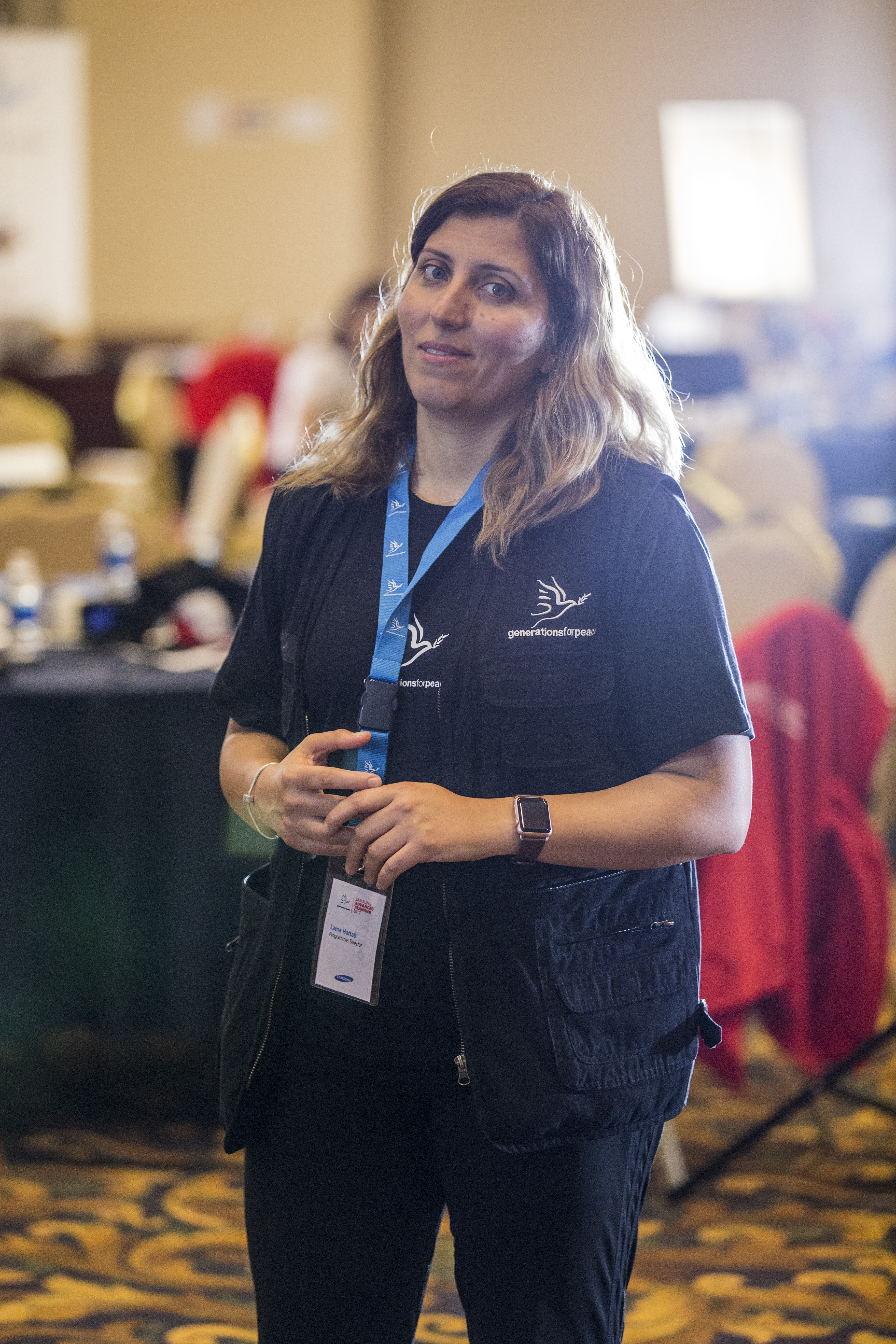 لما خلال التدريب في هيئة أجيال السلام